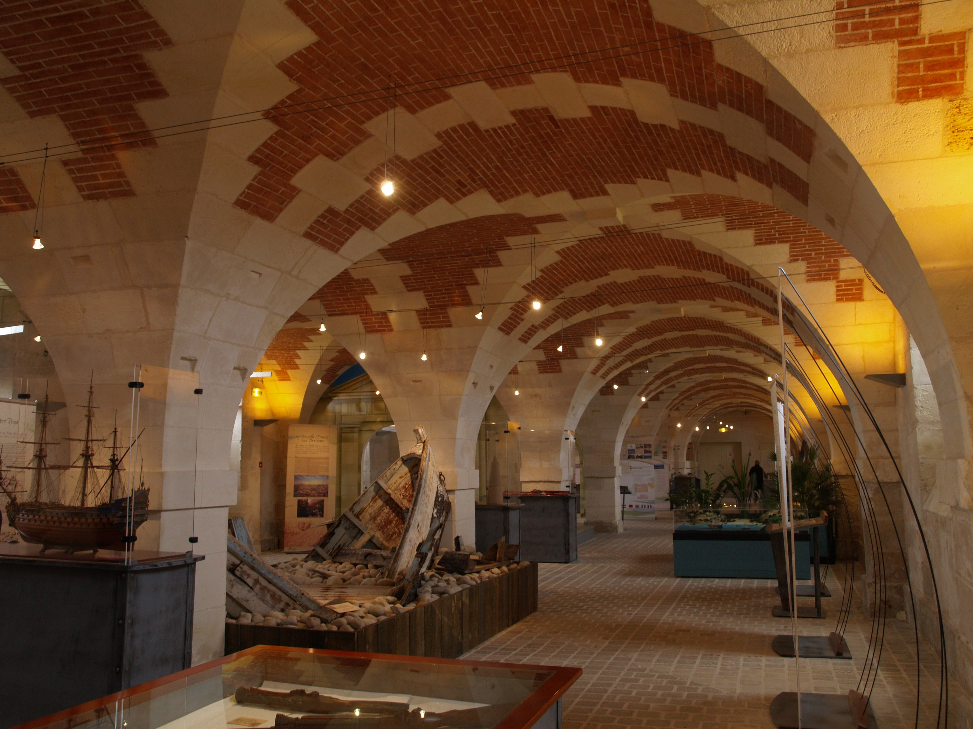 Brouage (Charente-Maritime, France) - Citadel - Warehouse - inside